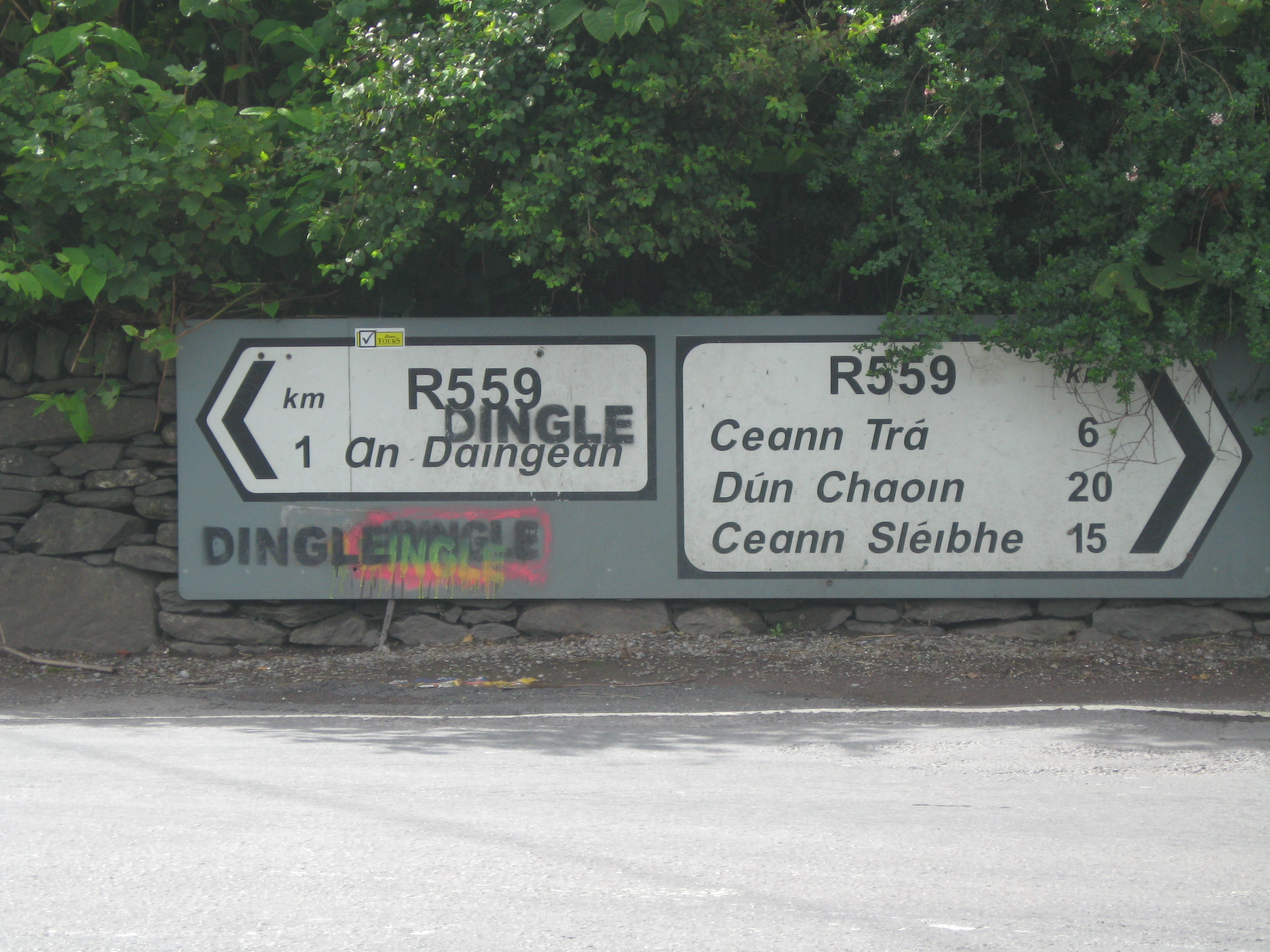 Local roadsign spray-painted to show popular town name, despite official renaming.